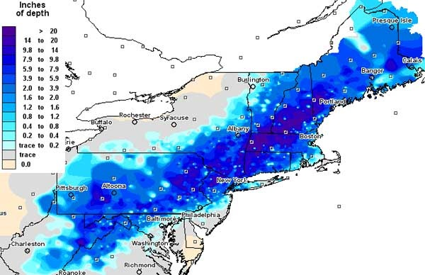 Snowfall totals from the w:2011 Halloween nor'easter across the Northeast United States. Other information Snowfall totals from the 2011 Halloween nor'easter.